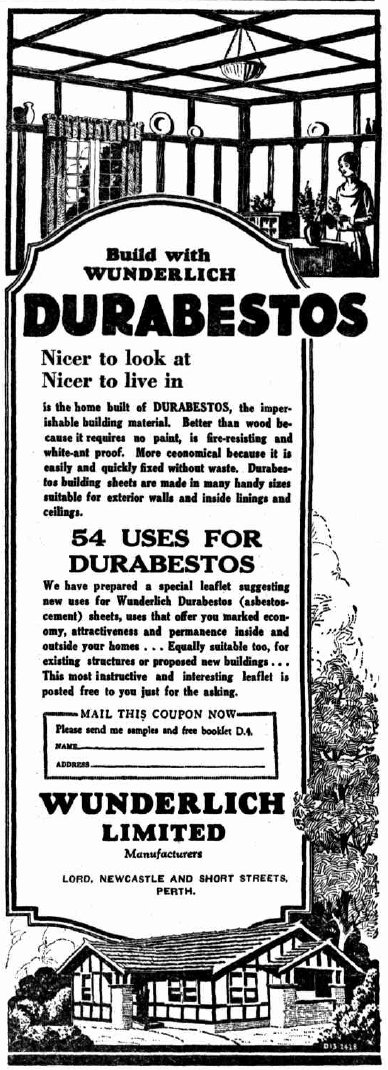 Advertisement for "Durabestos"